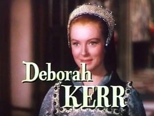 Cropped screenshot of Deborah Kerr from the trailer for the film Young Bess